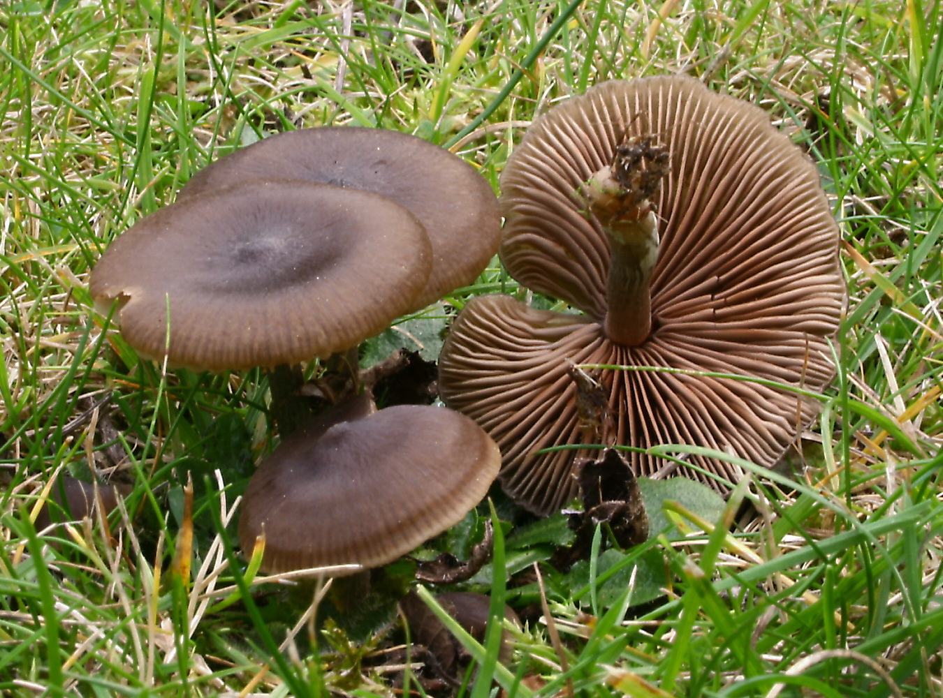 Entoloma sericeum in a garden near Massy, France.